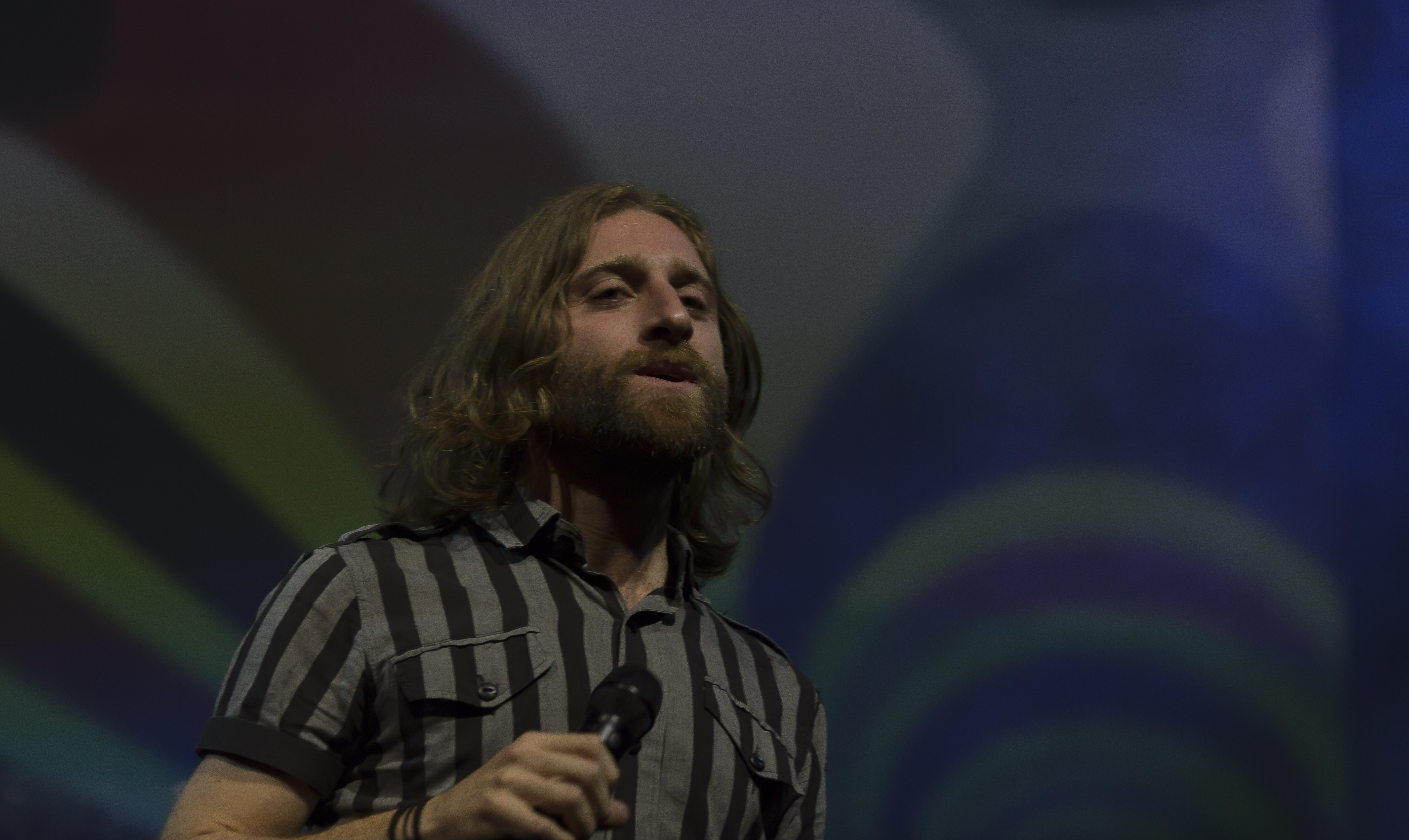 Rubber Soul Revolver - Sydney Opera House - 7th August 2015